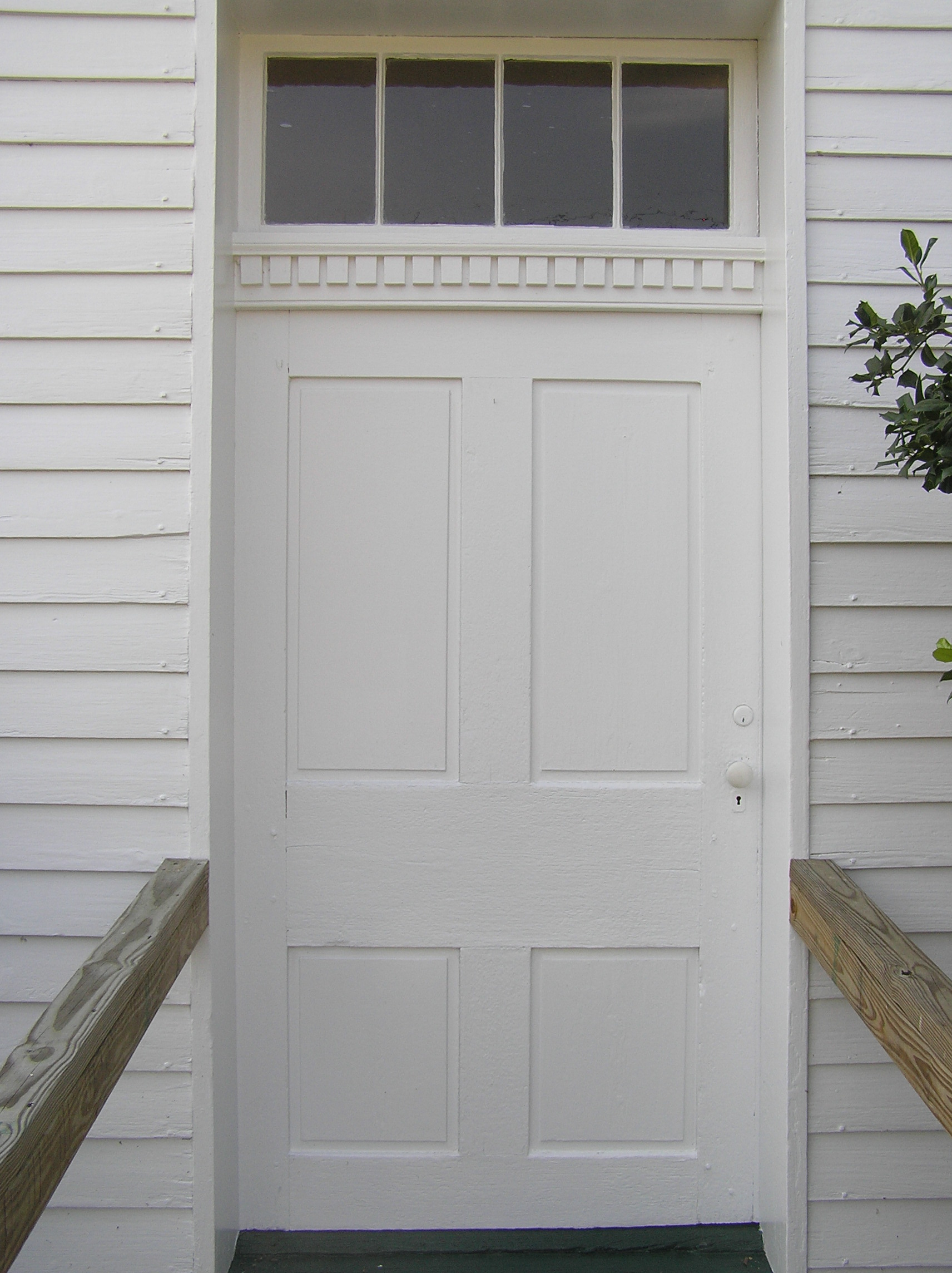 Capon Chapel (c. 1756) and Cemetery on Christian Church Road (County Route 13) near Capon Bridge, West Virginia, United States.